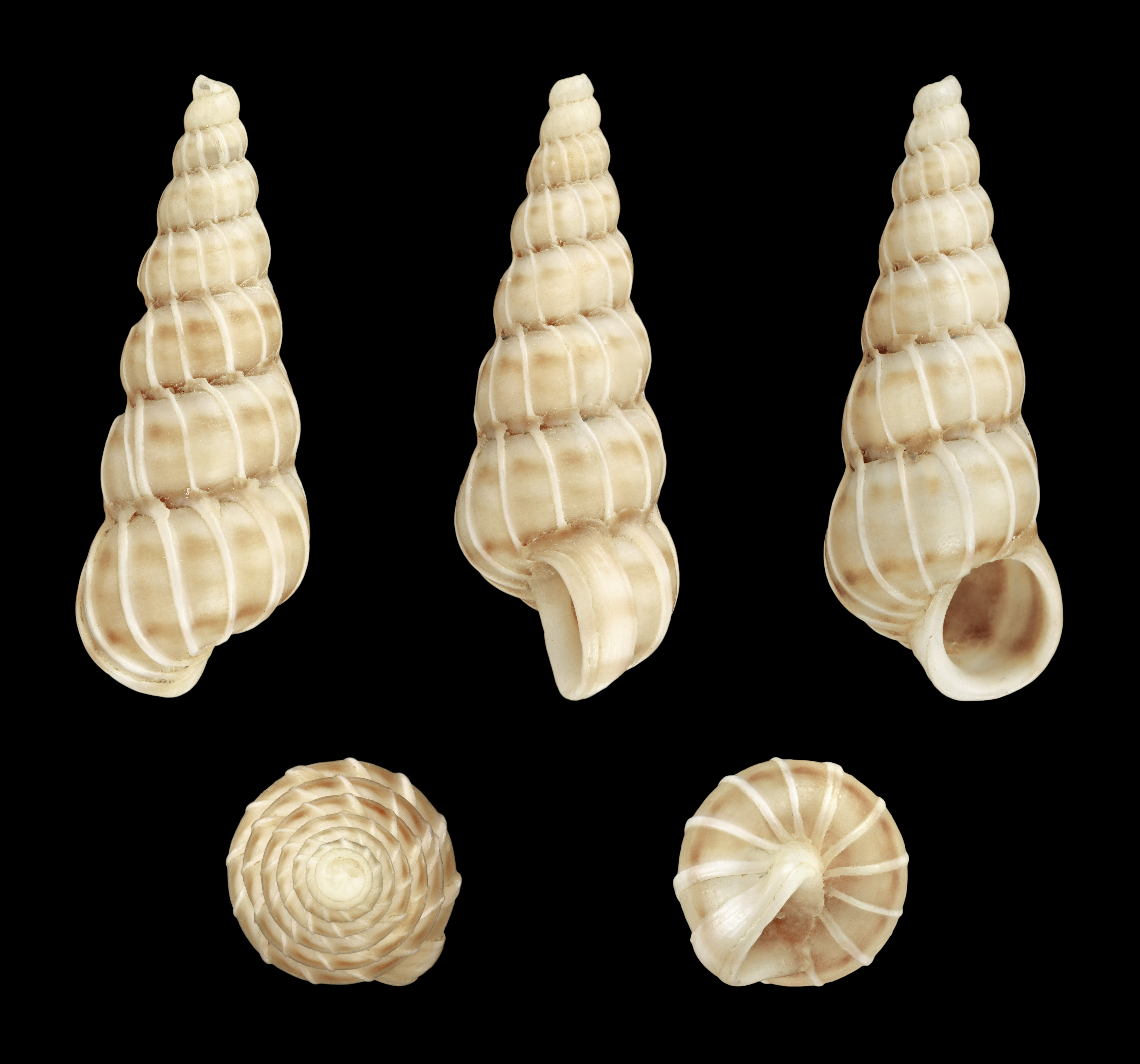 European Ribbed Wentletrap; Length 2.2 cm; Originating from the North Sea; Shell of own collection, therefore not geocoded. Dorsal, lateral (right side), ventral, back, and front view.